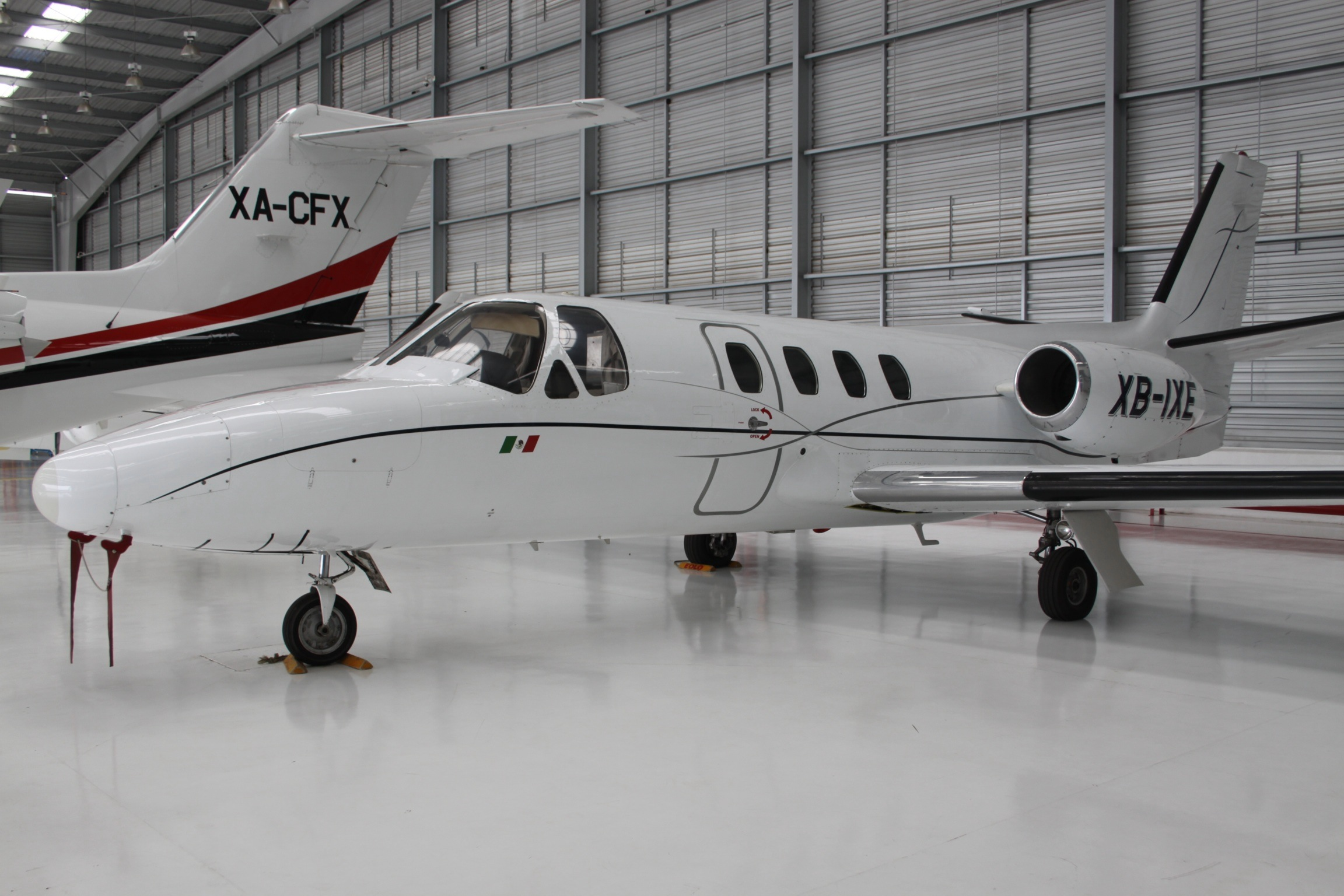 At Toluca